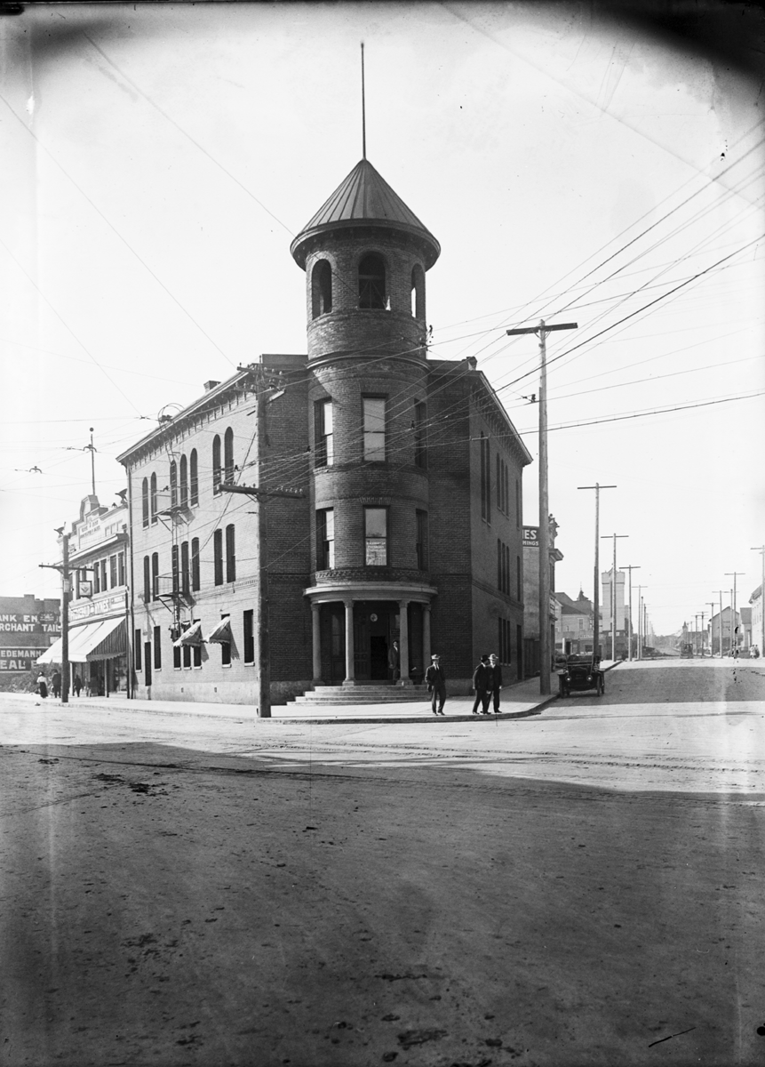 The former city hall of Ballard, Washington, which was annexed to Seattle in 1907. This picture is from 1915; the building later burned, I believe. Item 11935, Engineering Department Photographic Negatives (Record Series 2613-07), Seattle Municipal Archives.